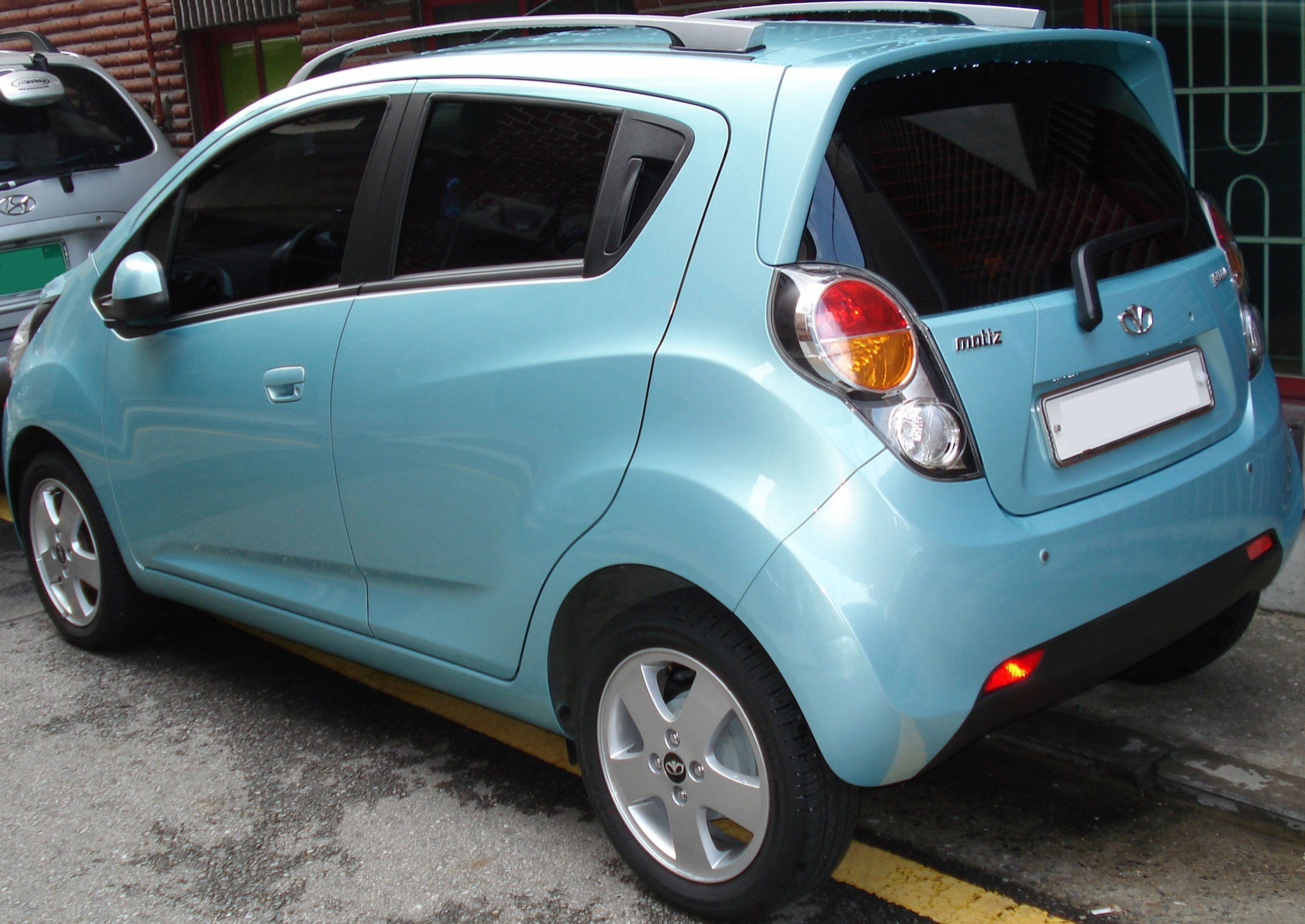 Daewoo Matiz Creative